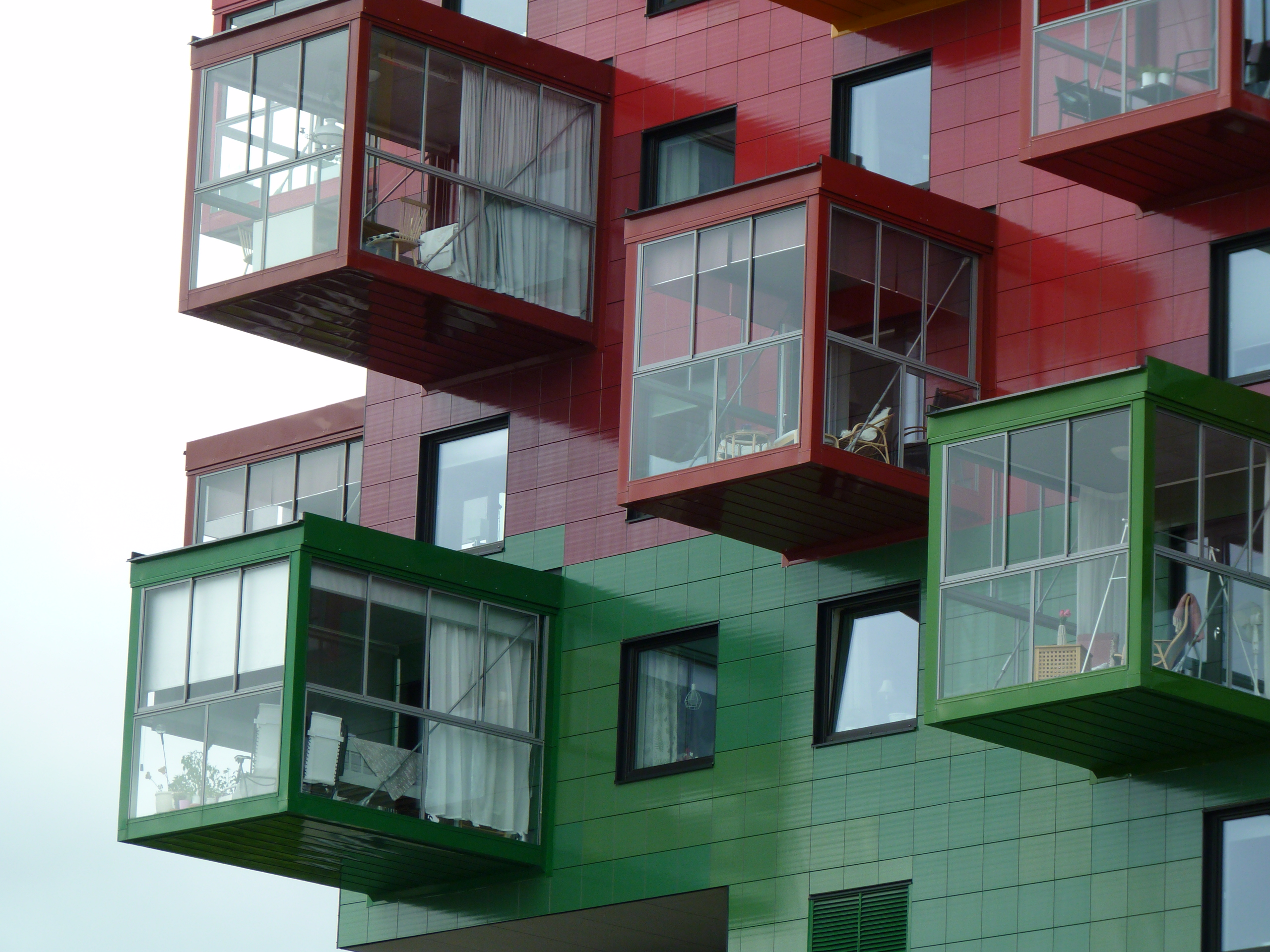 Ting1 i Örnsköldsvik